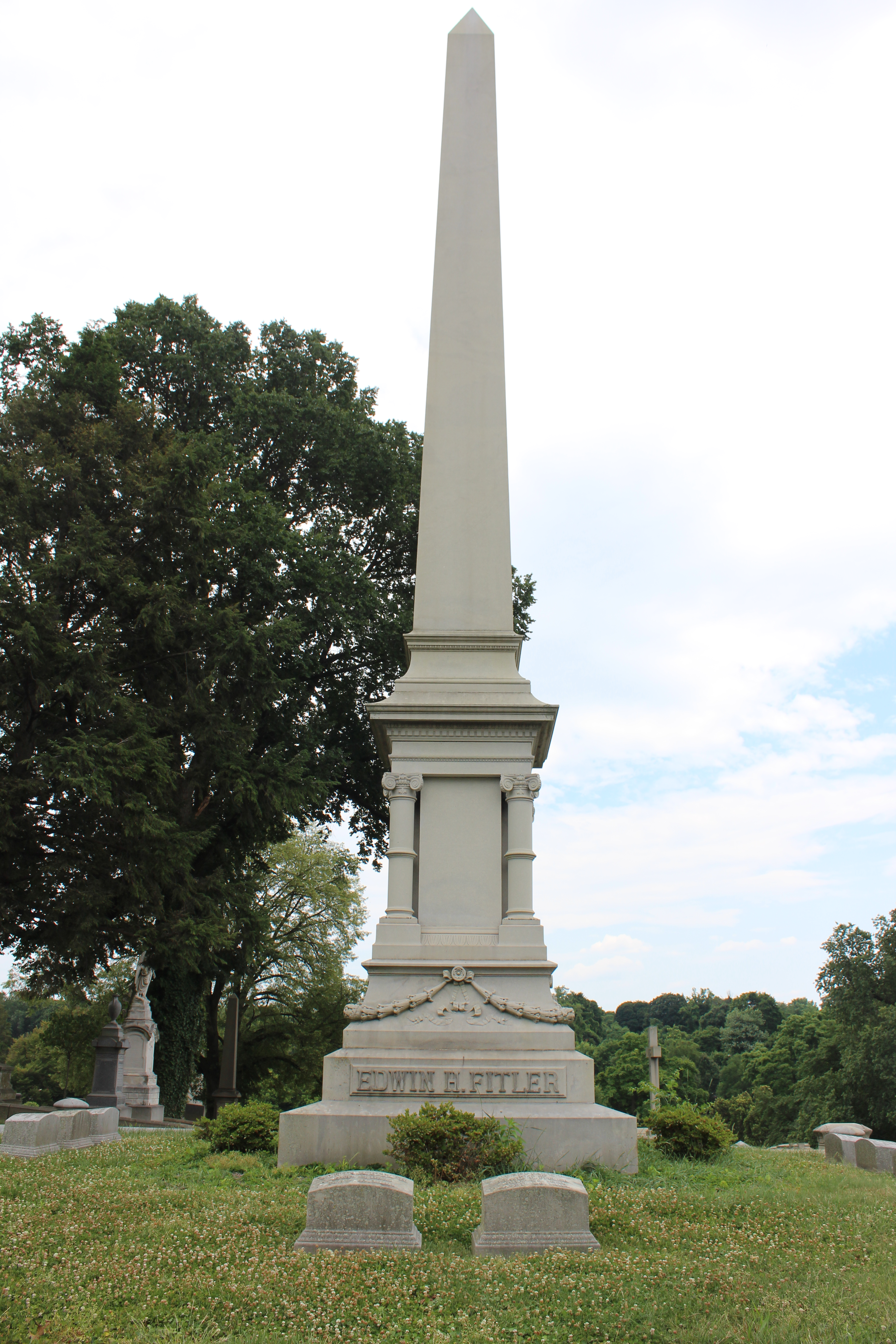 Edwin Henry Fitler memorial in Laurel Hill Cemetery. Photo taken July 2020.